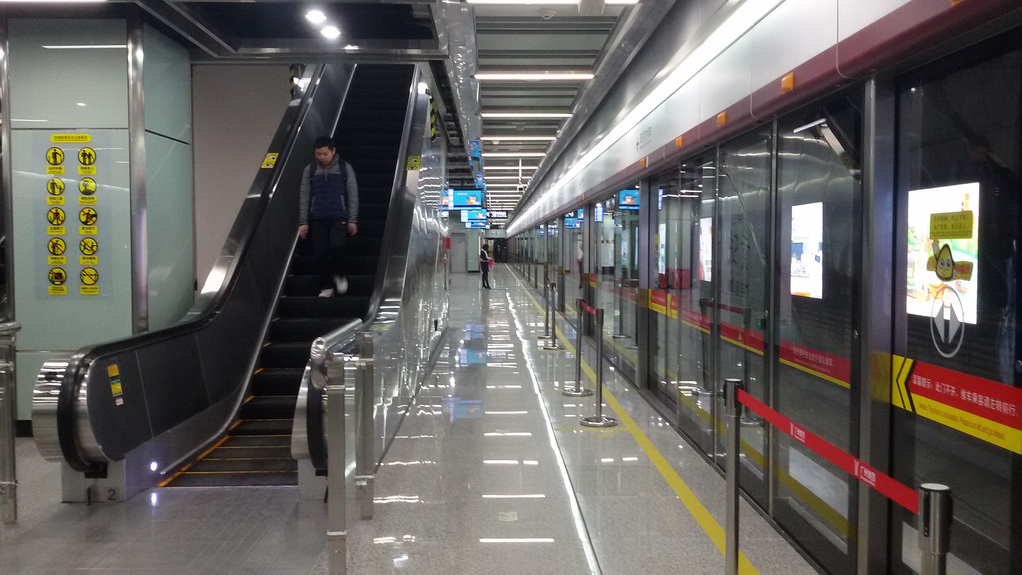 Station Platform for Huangbei Station in Guangzhou Metro.